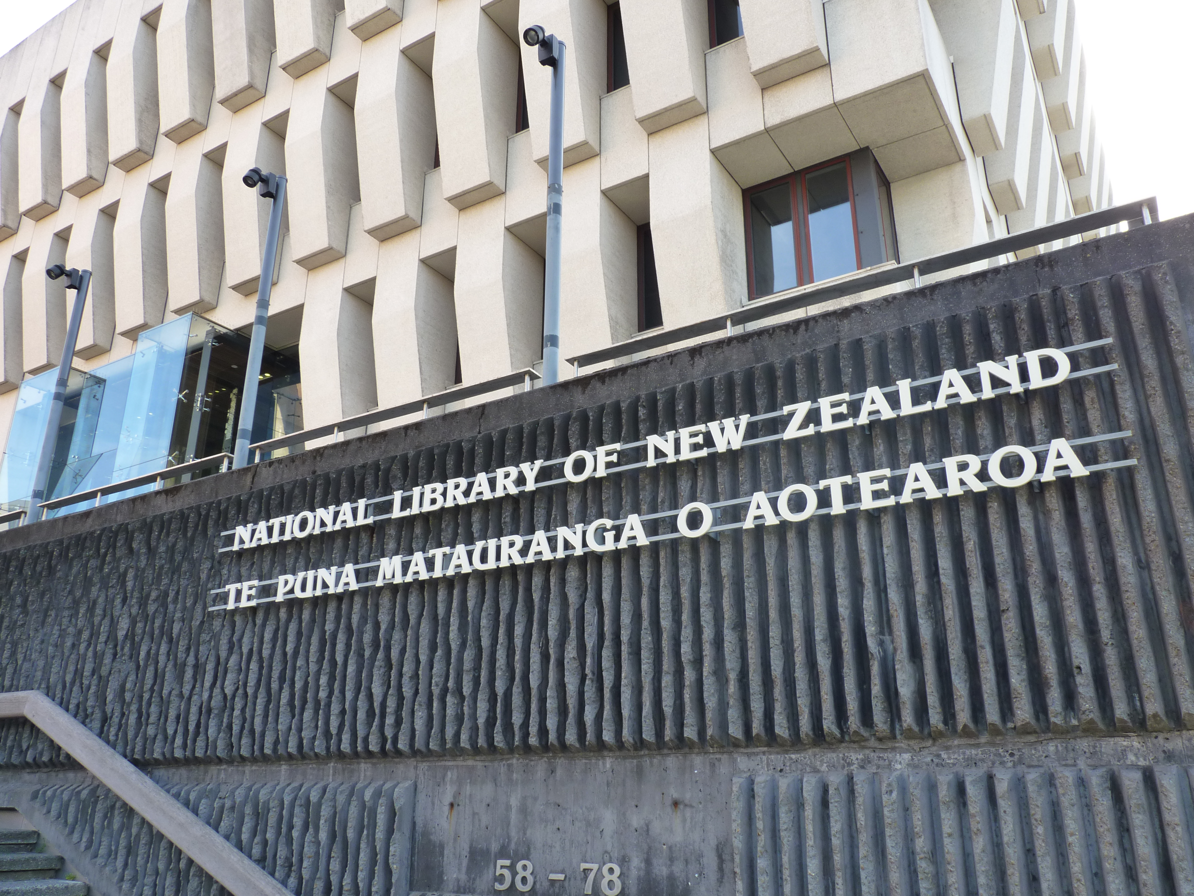 National Library of New Zealand. Wellington, New Zealand